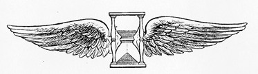 (Removed after reusableart request.)